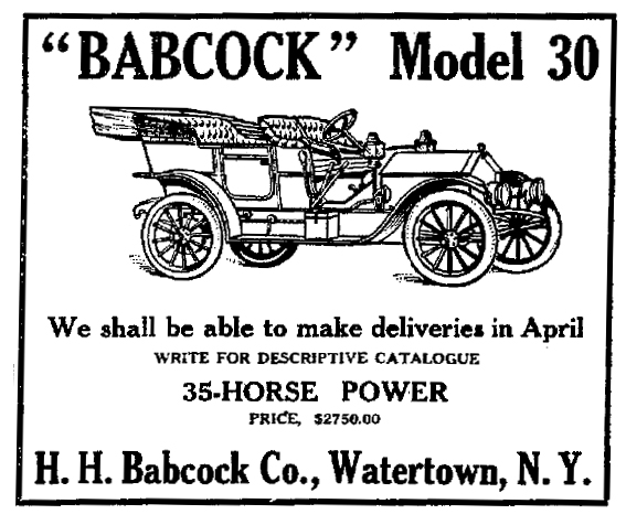 Babcock Model 30 - Advertisement